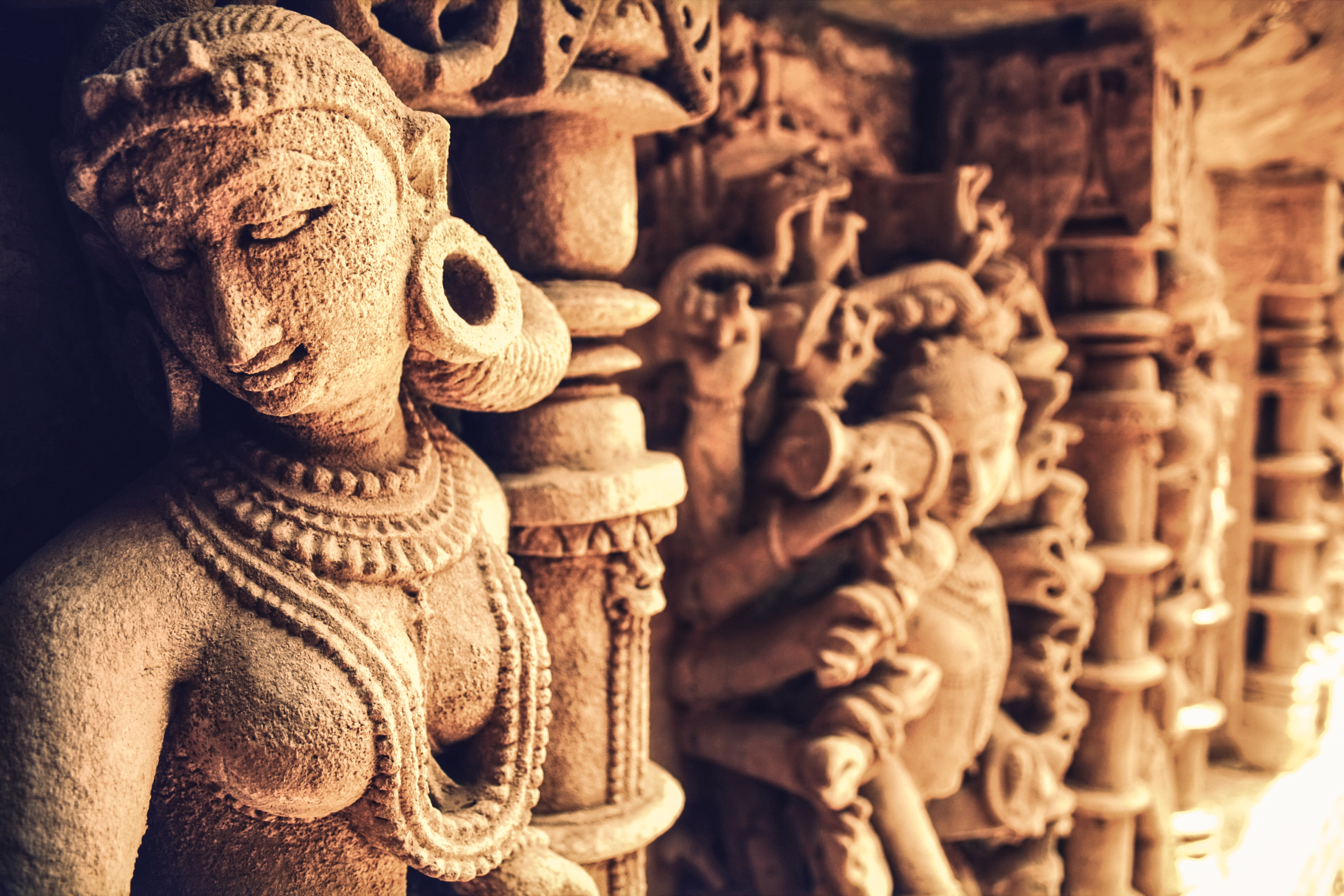 Richly reliefed nymphs from the walls of the Rani ki Vav, a 1000 year old stepwell in Patan, Gujarat.